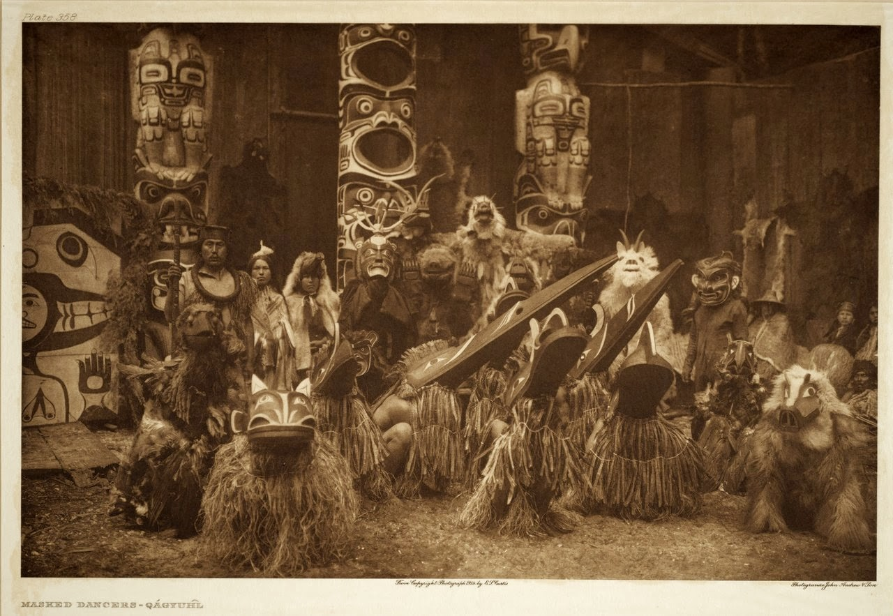 Showing of masks at Kwakwaka'wakw potlatch.